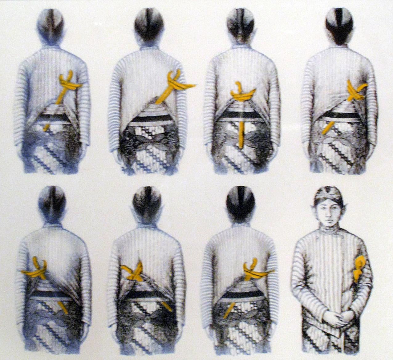 An image displaying various way on wearing keris in Java. National Museum of Indonesia, Jakarta.